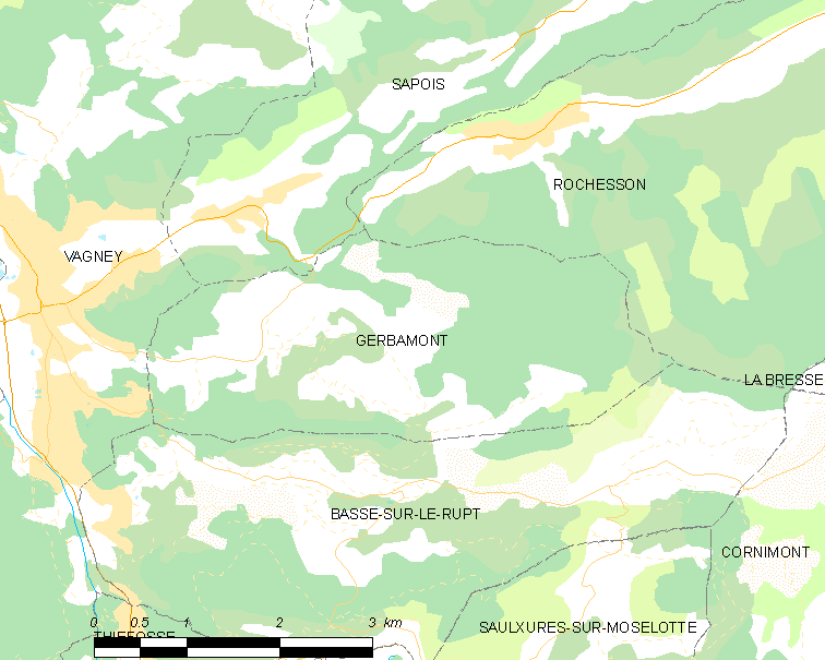 Map of French municipality Gerbamont